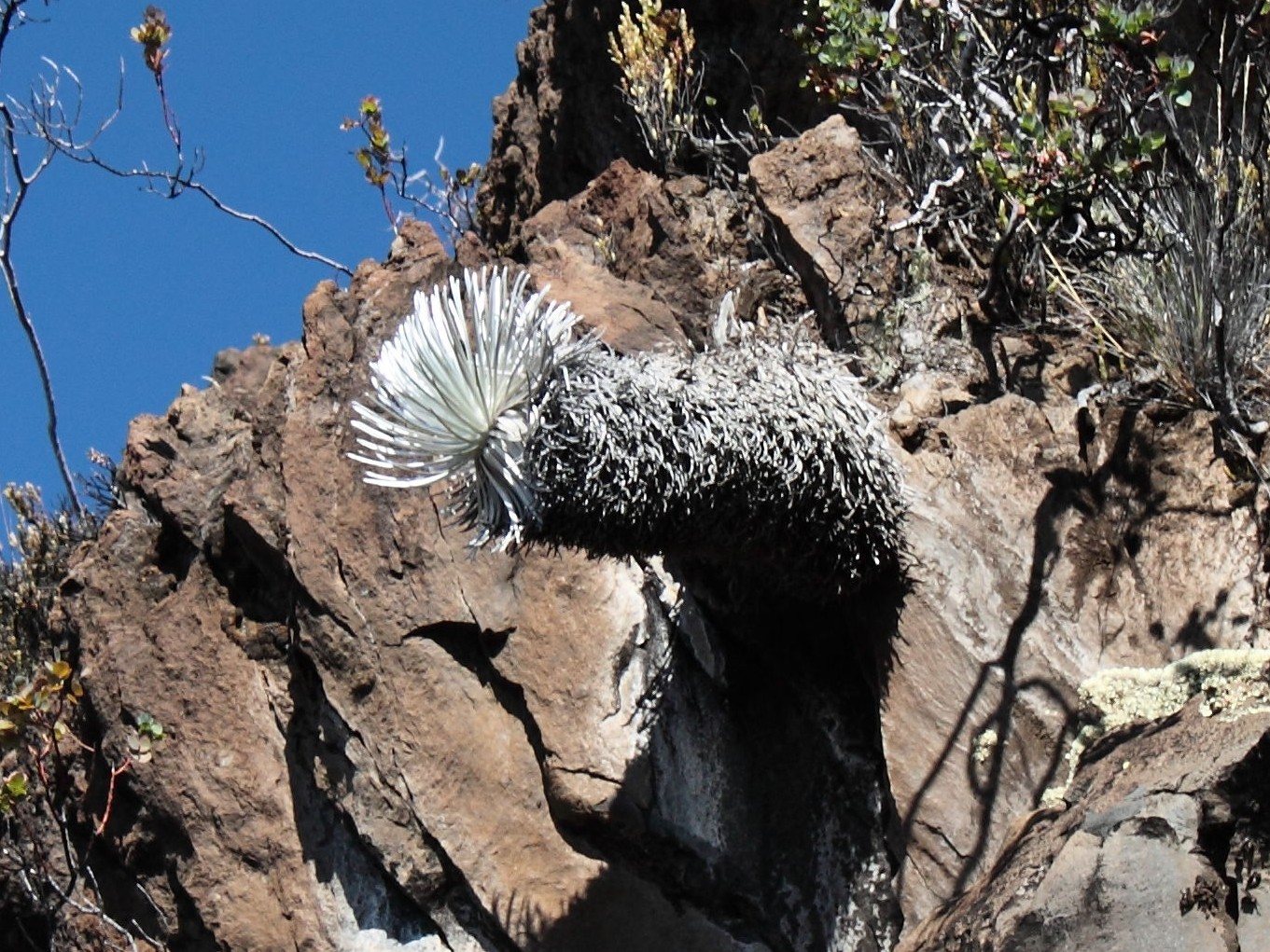 One of the last wild Mauna Kea silverswords, Argyroxiphium sandwicense sandwicense.